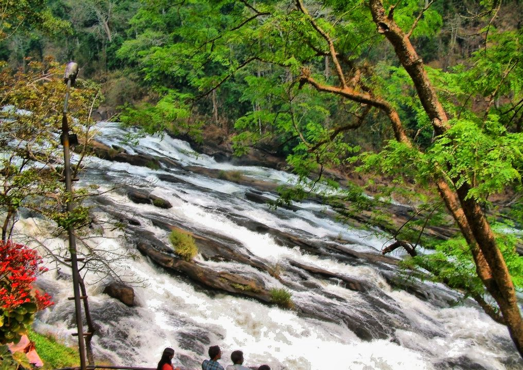 Vazhachal falls